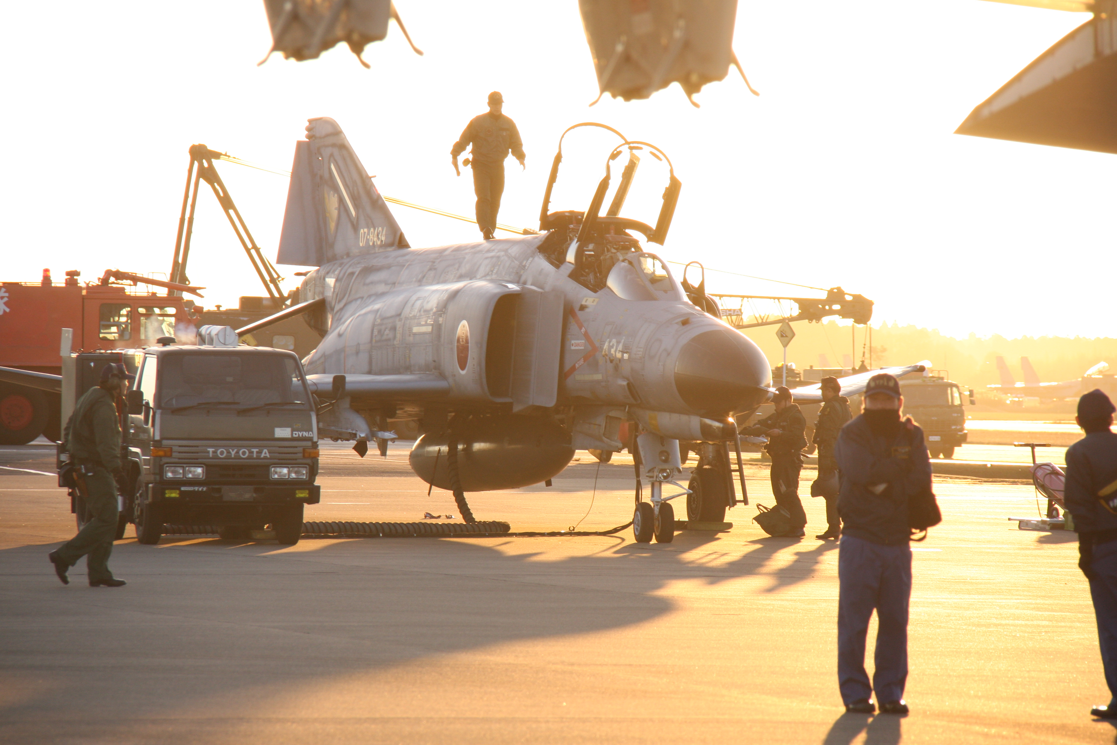 F-4EJ kai (07-8434) of 301 Sqn at Nyūtabaru Air Festival 2009. Canon EOS 40D